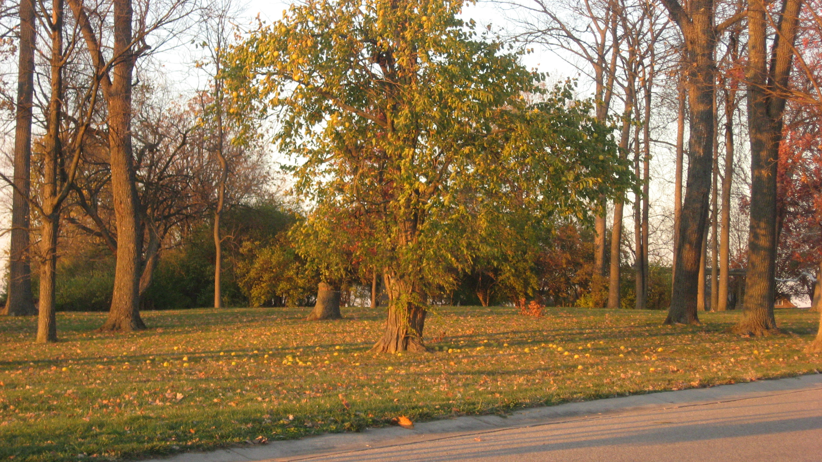 Looking northeast from the eastern end of Oak Road in Glendale, Ohio, United States. In the woods at the top of the hill is the Mathew Mound, a burial mound built by an unknown Woodland period people and a significant archaeological site. It is listed on the National Register of Historic Places.